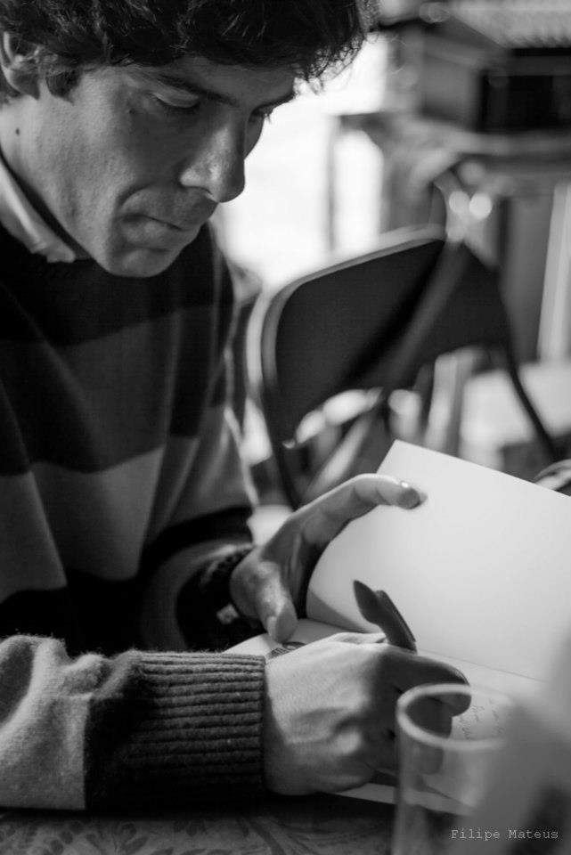 Nuno Matos Valente na apresentação do livro A Ordem do Poço do Inferno